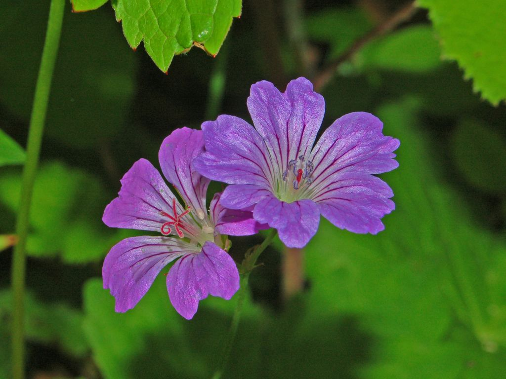 Geranium nodosum - Gattorna, Genova, Italy